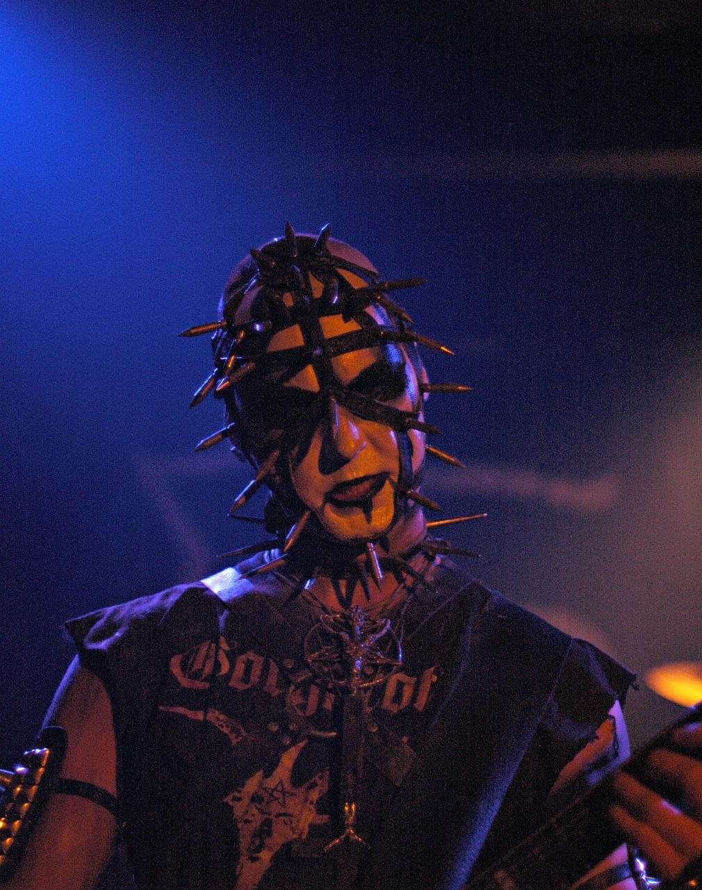 Enzifer, guitarist of Urgehal, live at Baroeg (Rotterdam).